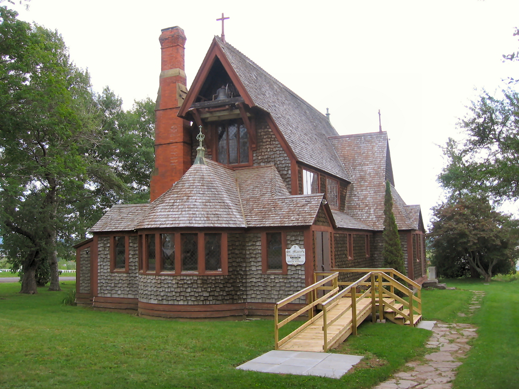 Self made photo. 2006.